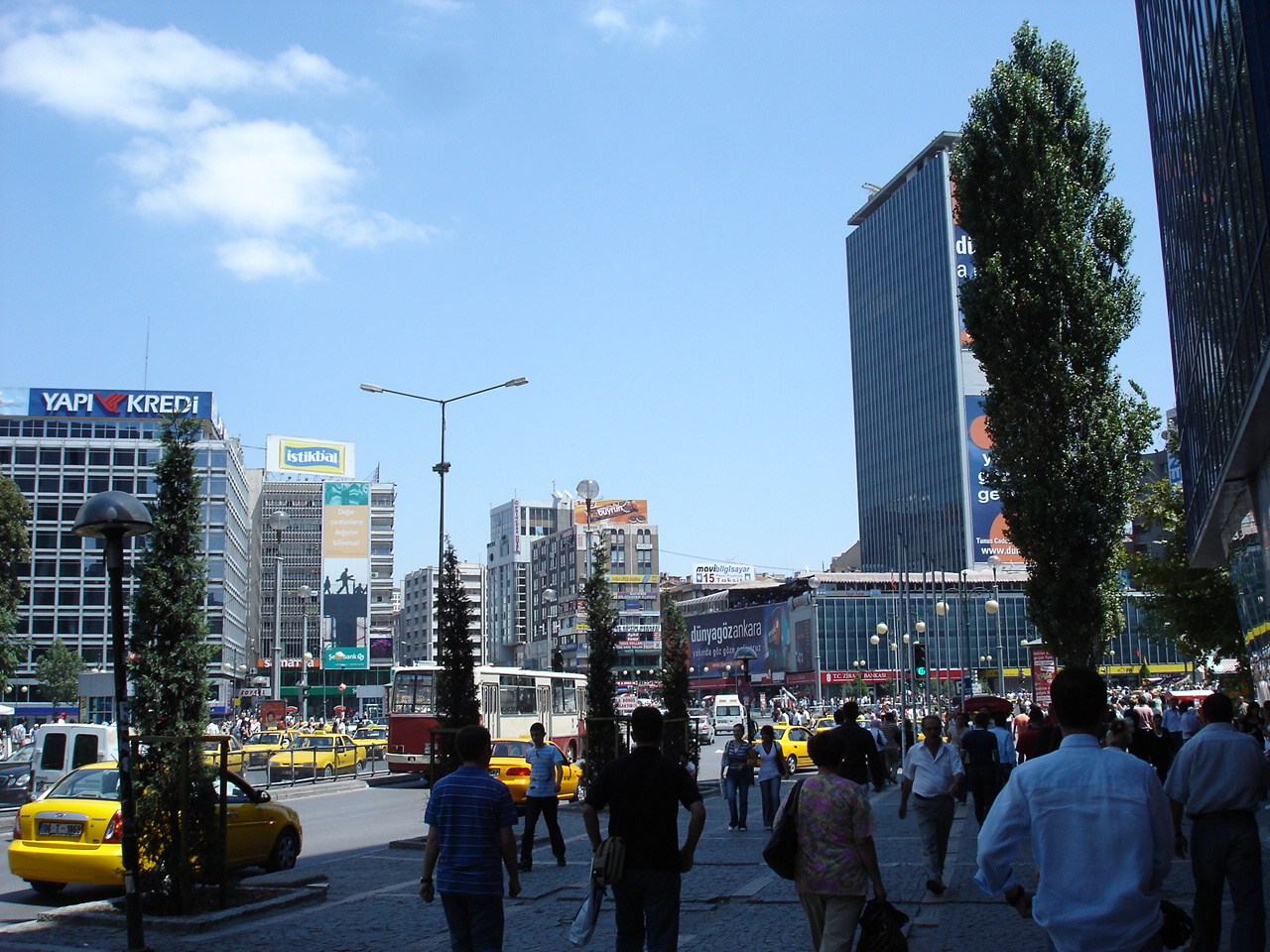 Kızılay Square in Ankara, Turkey